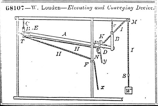 Drawing from William Louden's 1867 patent application for his hay carrier, U.S. Patent Office Records, Volume 4, 1868 (for year 1867), p. 972.